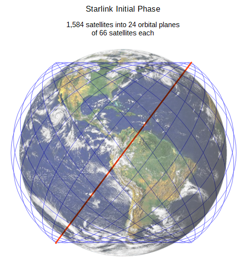 1,584 satellites will be into 24 orbital planes of 66 satellites each, inclination 53°.